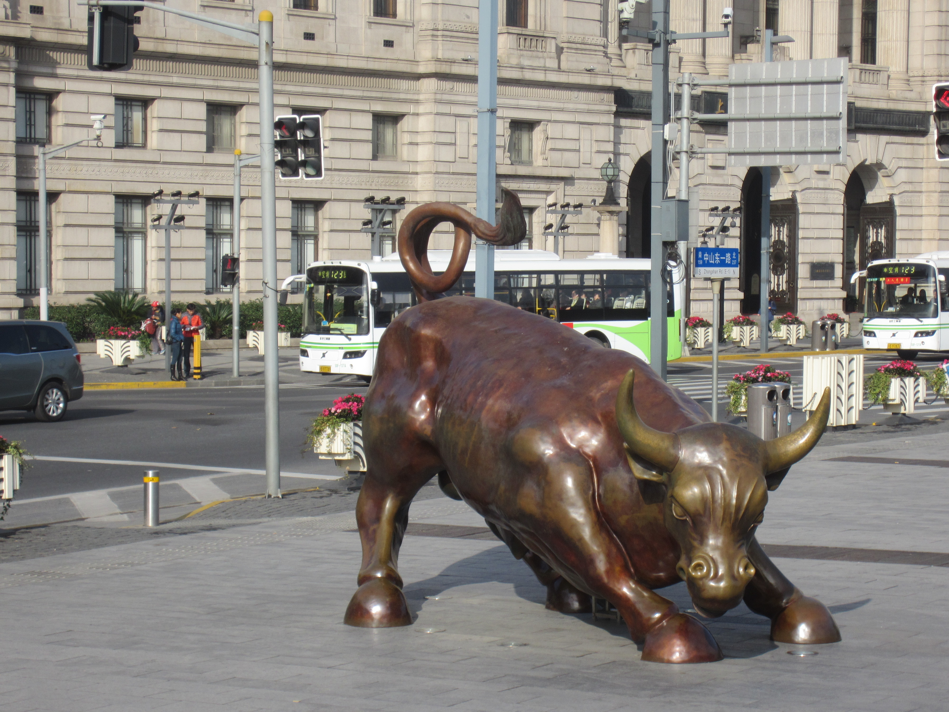 The Bund, Shanghai, China (December 2015)